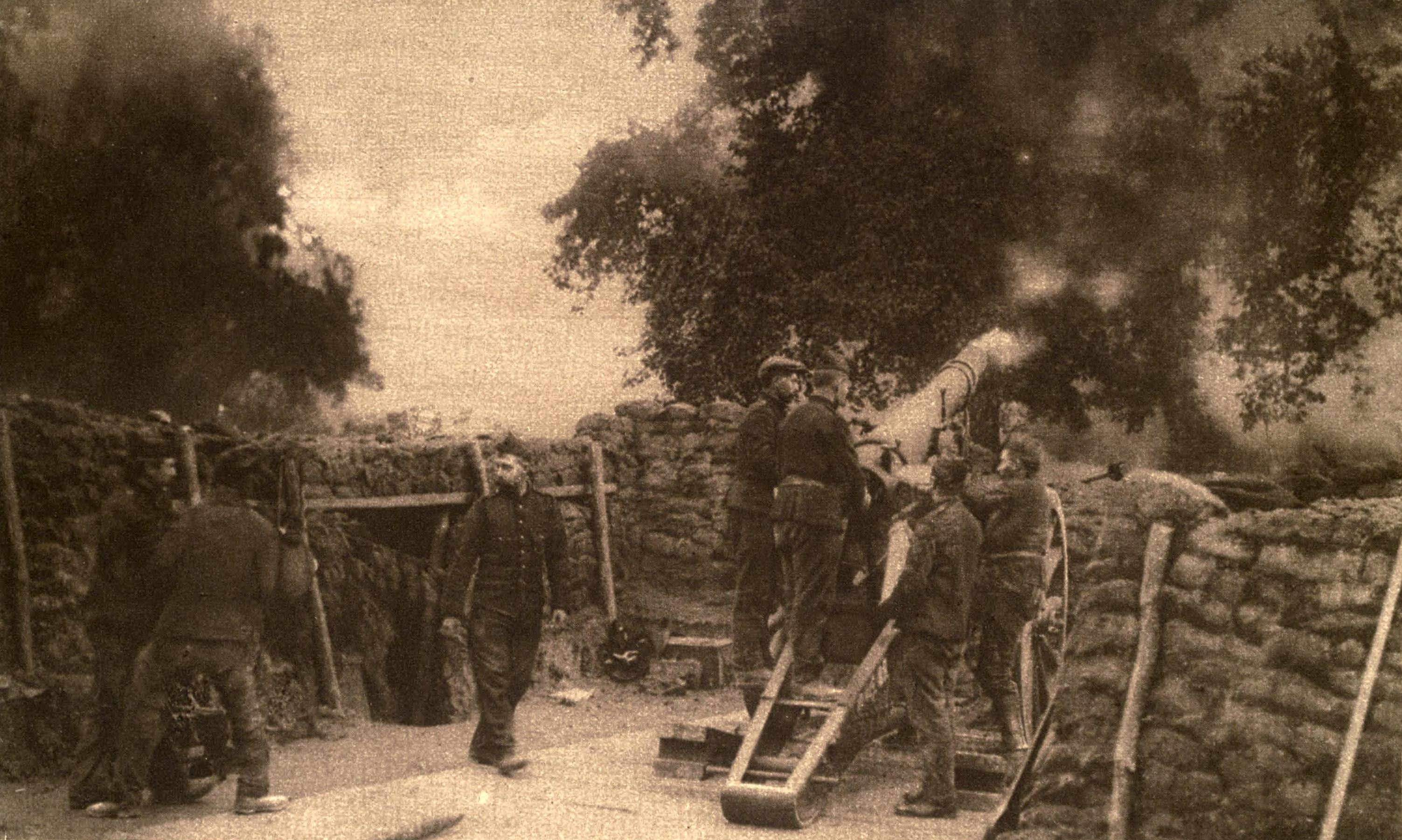 Belgian guns in action during the defense of Antwerp.